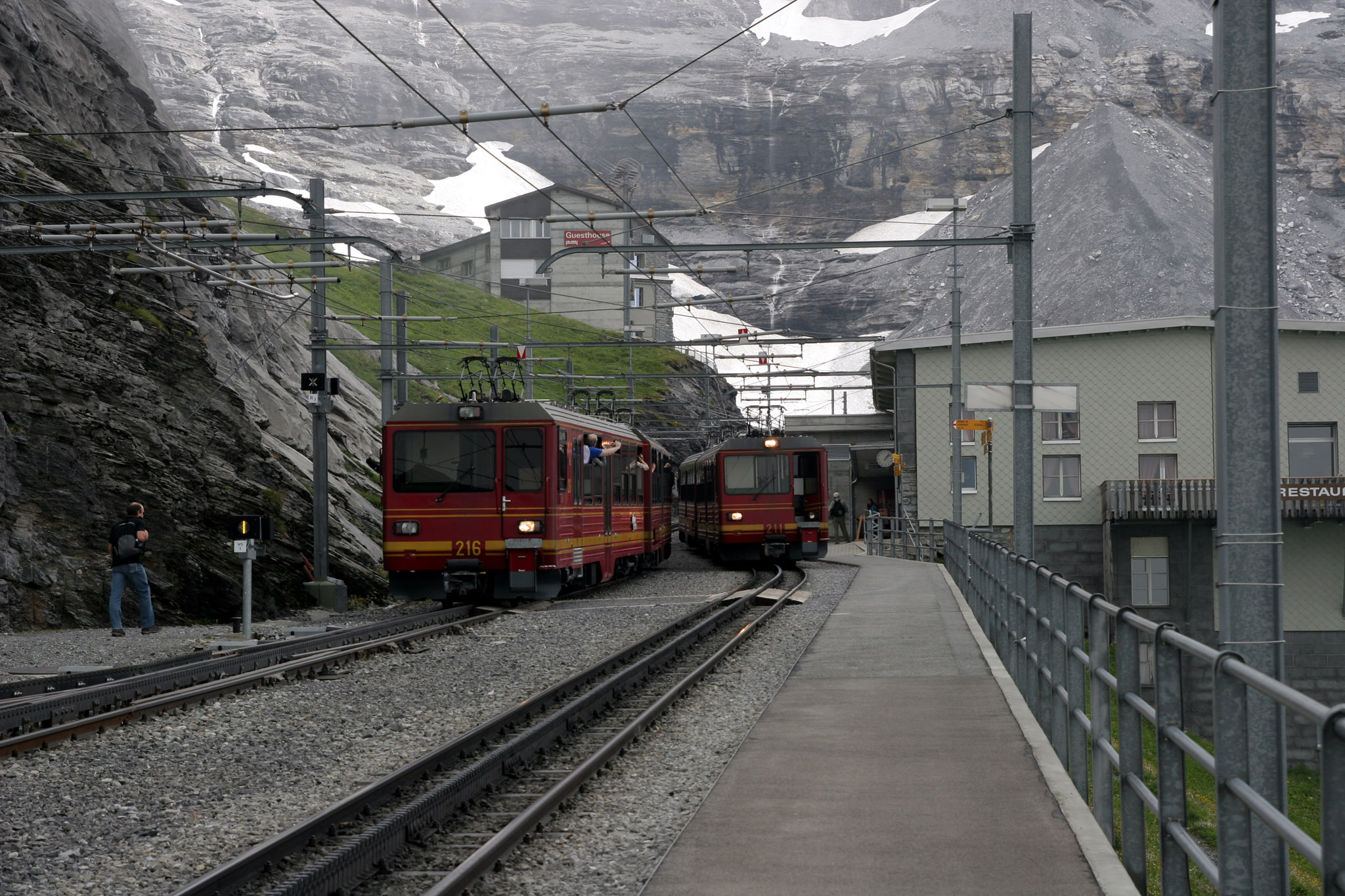 The station Eigergletscher from the Jungfraubahn in Switzerland.